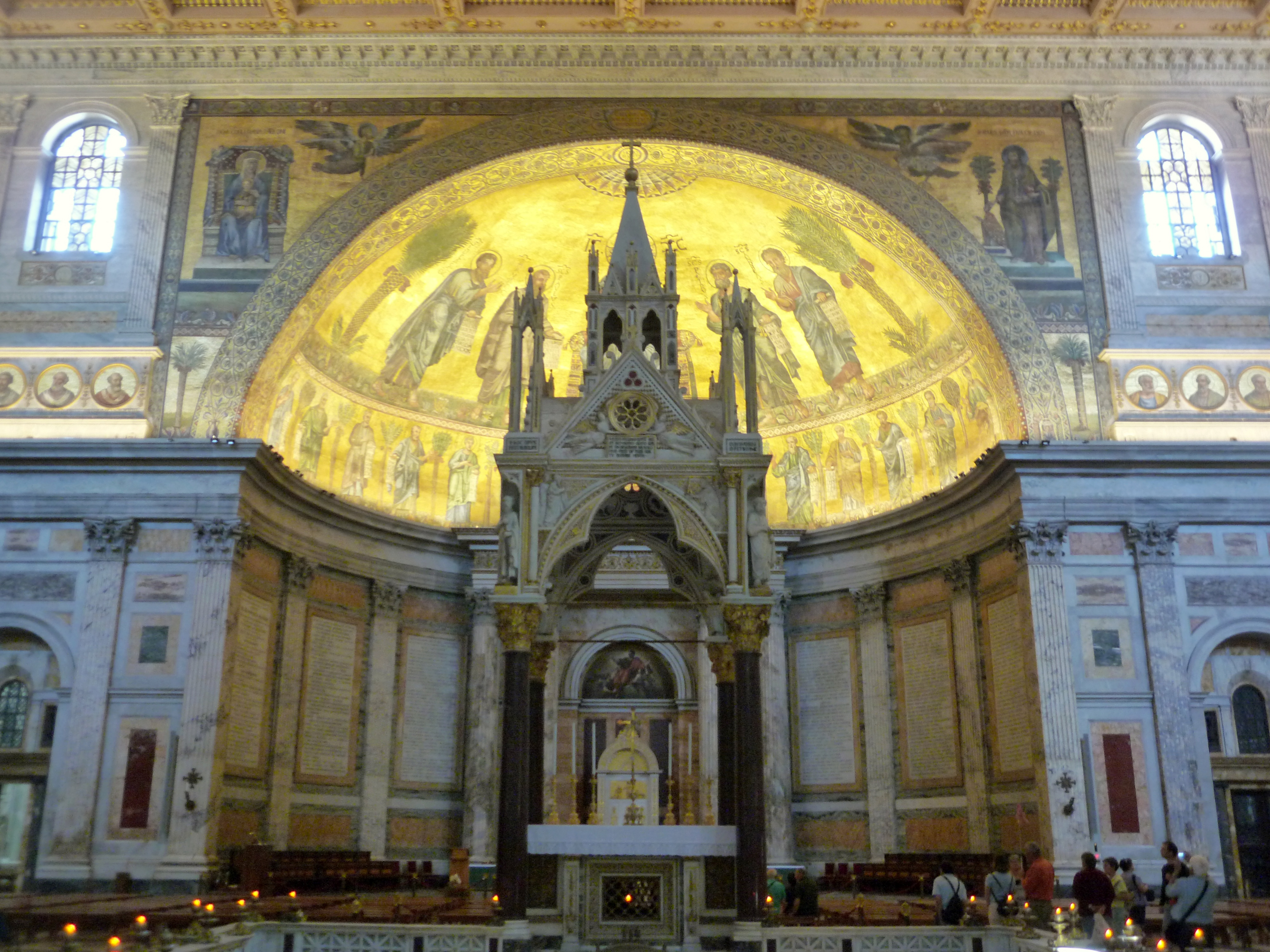 Basilica of Saint Paul Outside the Walls (Rome) - the tabernacle of the confession